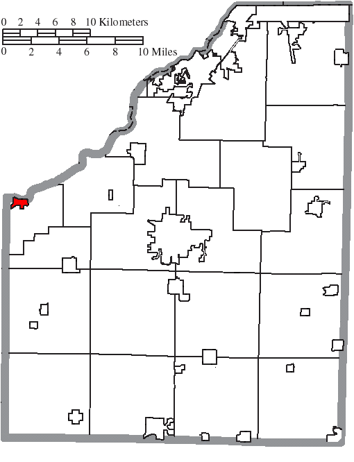 Map of the municipal and township boundaries of Wood County, Ohio, United States, as of the 2000 census, with the location of the village of Grand Rapids highlighted. Township borders are shown only in unincorporated areas in order to differentiate incorporated and unincorporated areas more clearly.